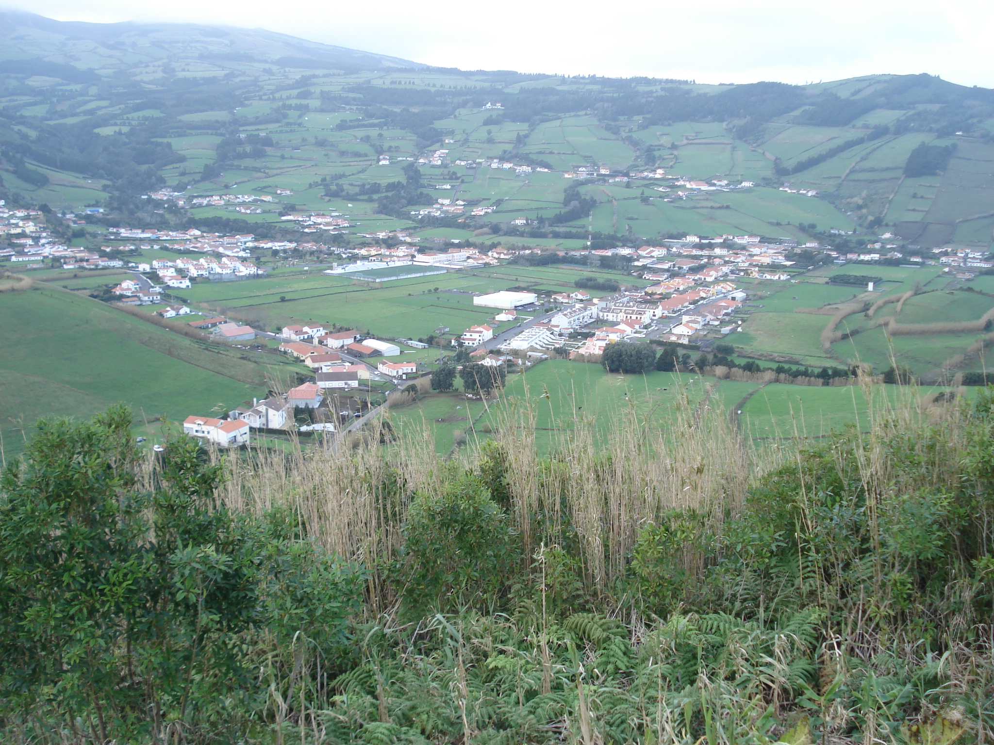 Valley of Flamengos, showing the village of Flamengos, as seen from Monte Carneiro, Horta, Faial Island, Azores